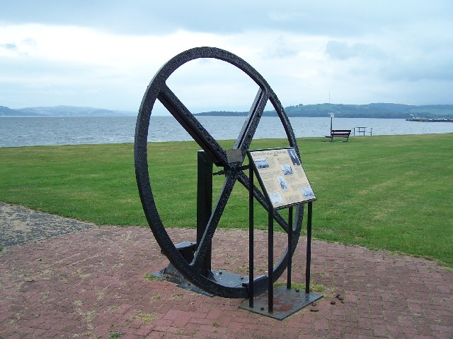 Flywheel from P.S. Comet. P.S. Comet was the first steam driven passenger ship. The flywheel is in east esplanade Helensburgh.